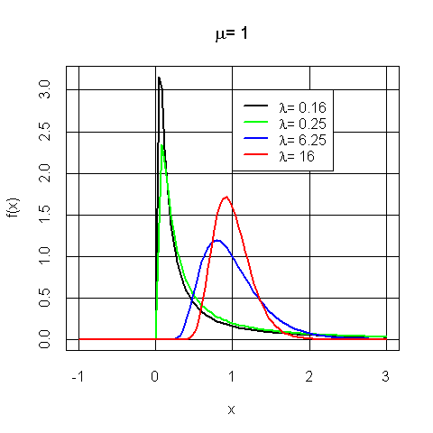 Inverse Gaussian Distribution